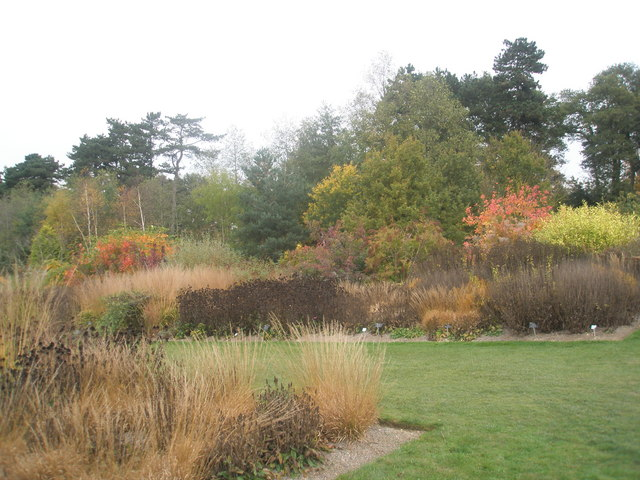 An autumnal path within RHS Wisley